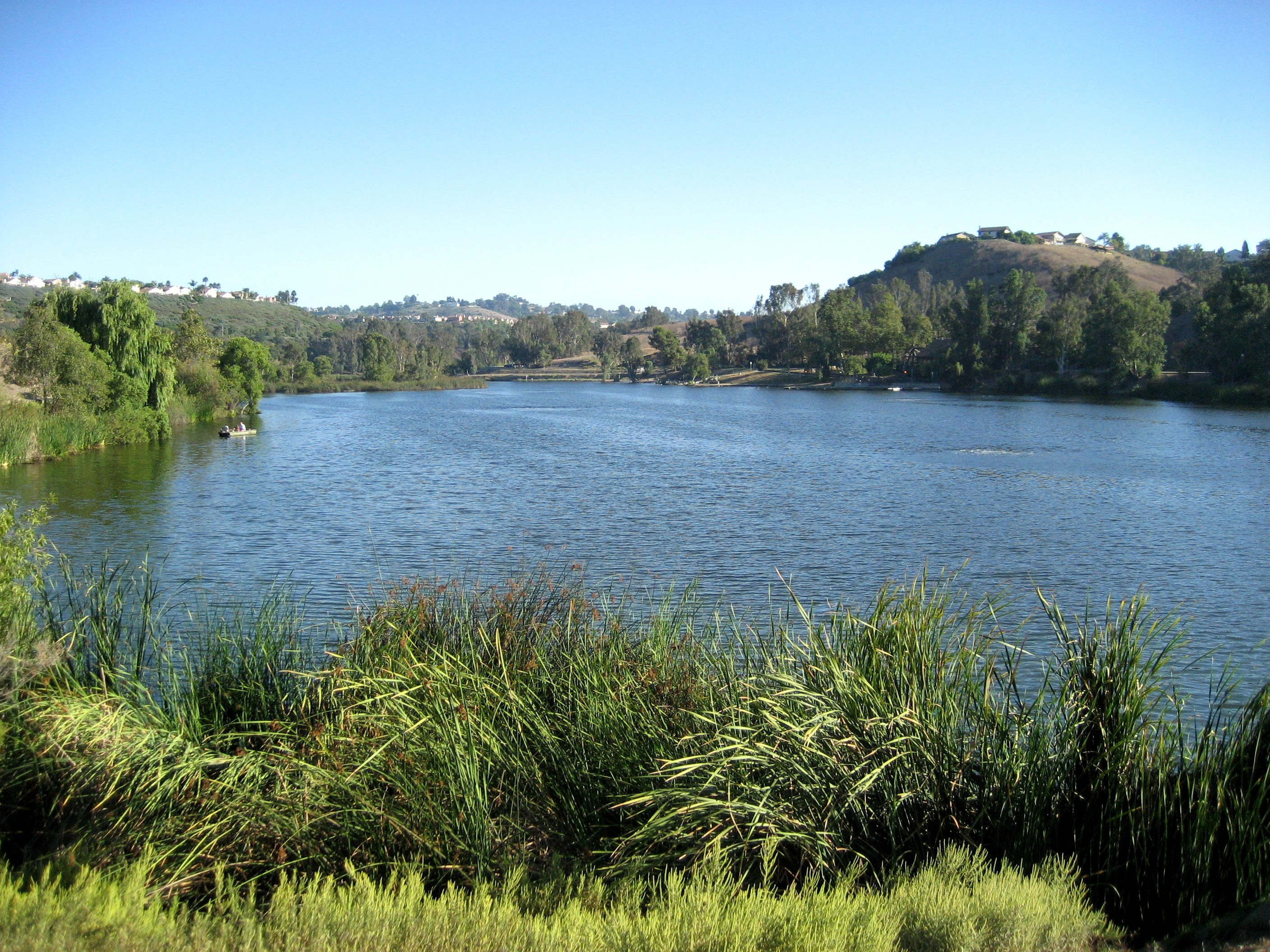 Laguna Niguel Lake, reservoir of Aliso Creek.